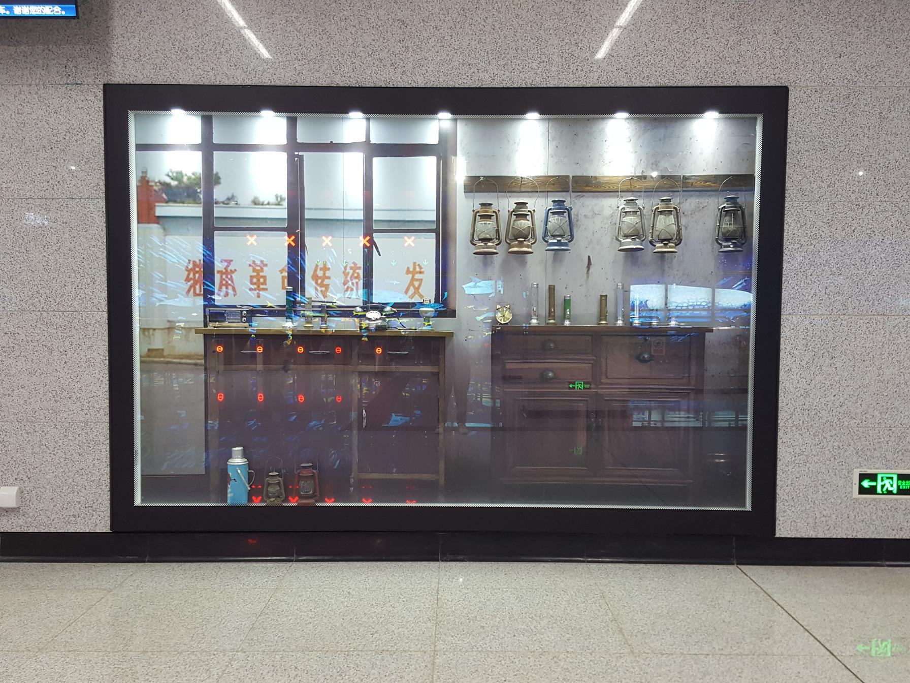 Art Wall in North International Expo Centre Station, Wuhan Metro